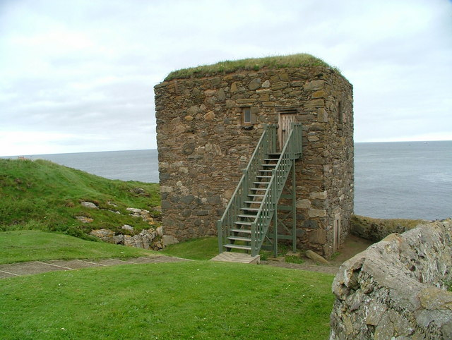 Fraserburgh Wine Tower, Kinnaird Head, Aberdeenshire